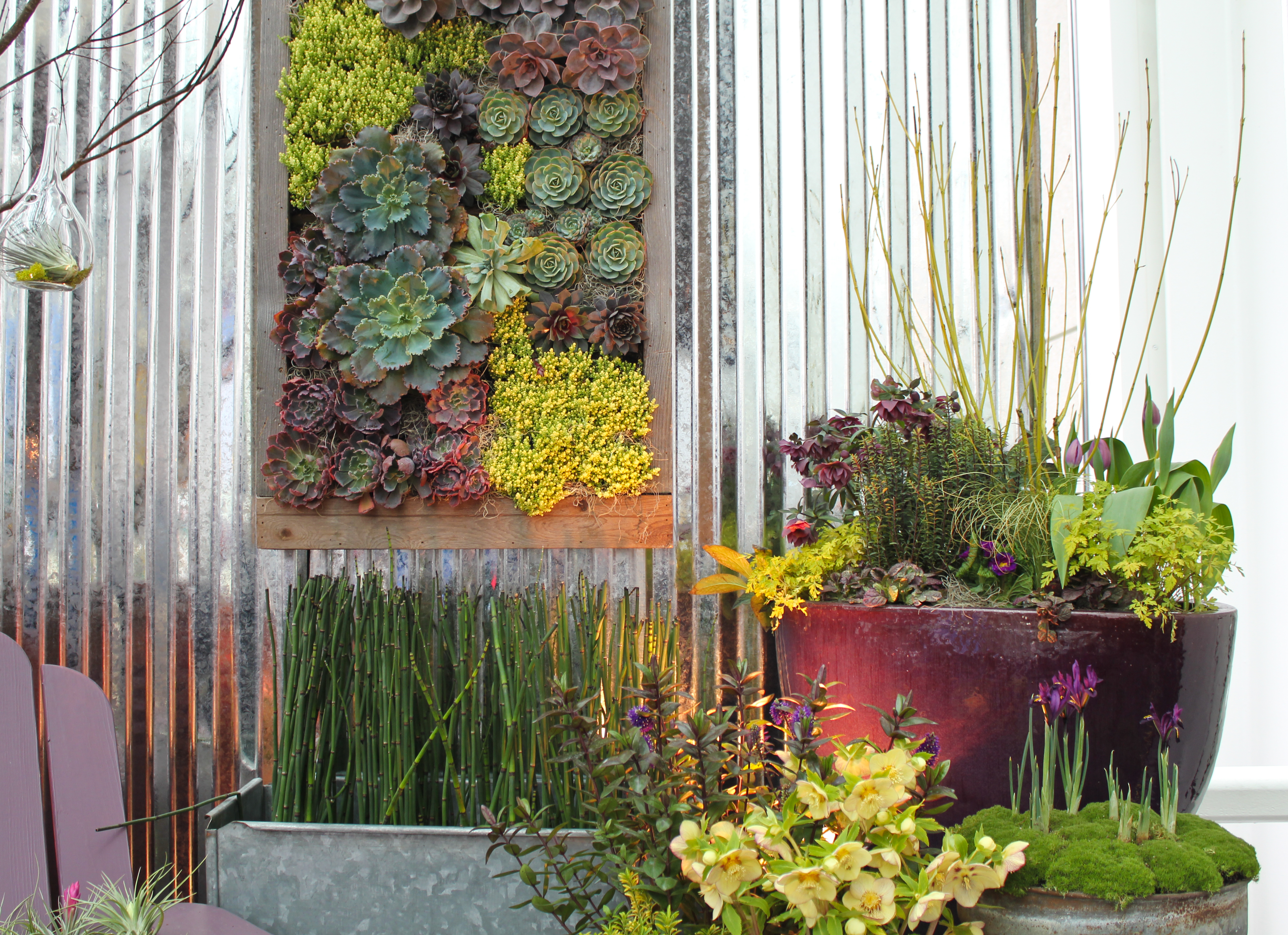 2011 Northwest Flower & Garden Show Small Space Showcase display (renamed City Living) by Ravenna Gardens.